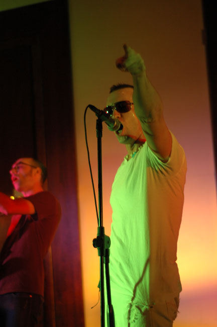 Image for Reagan Jones